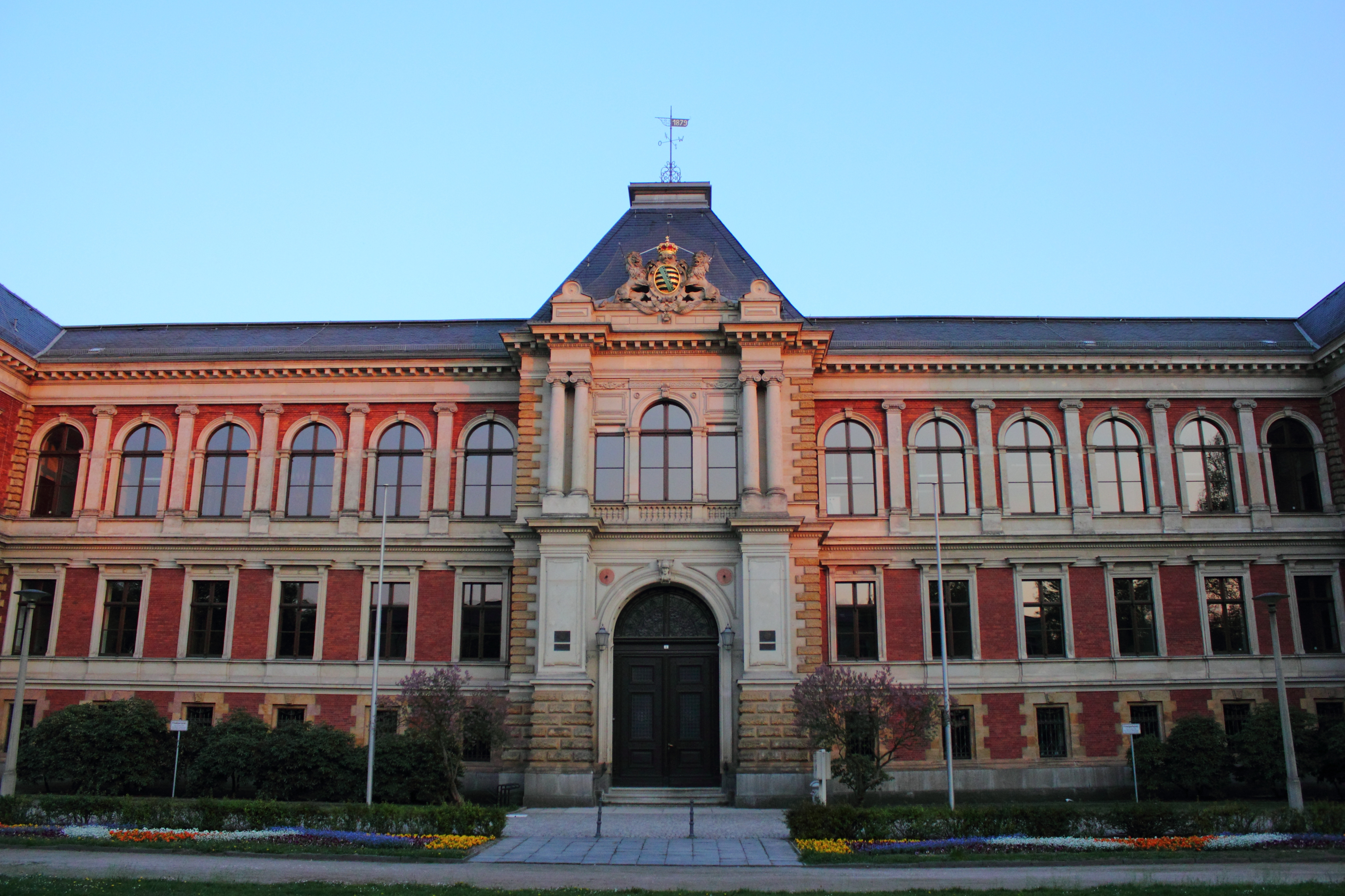 Courthouse in Zwickau